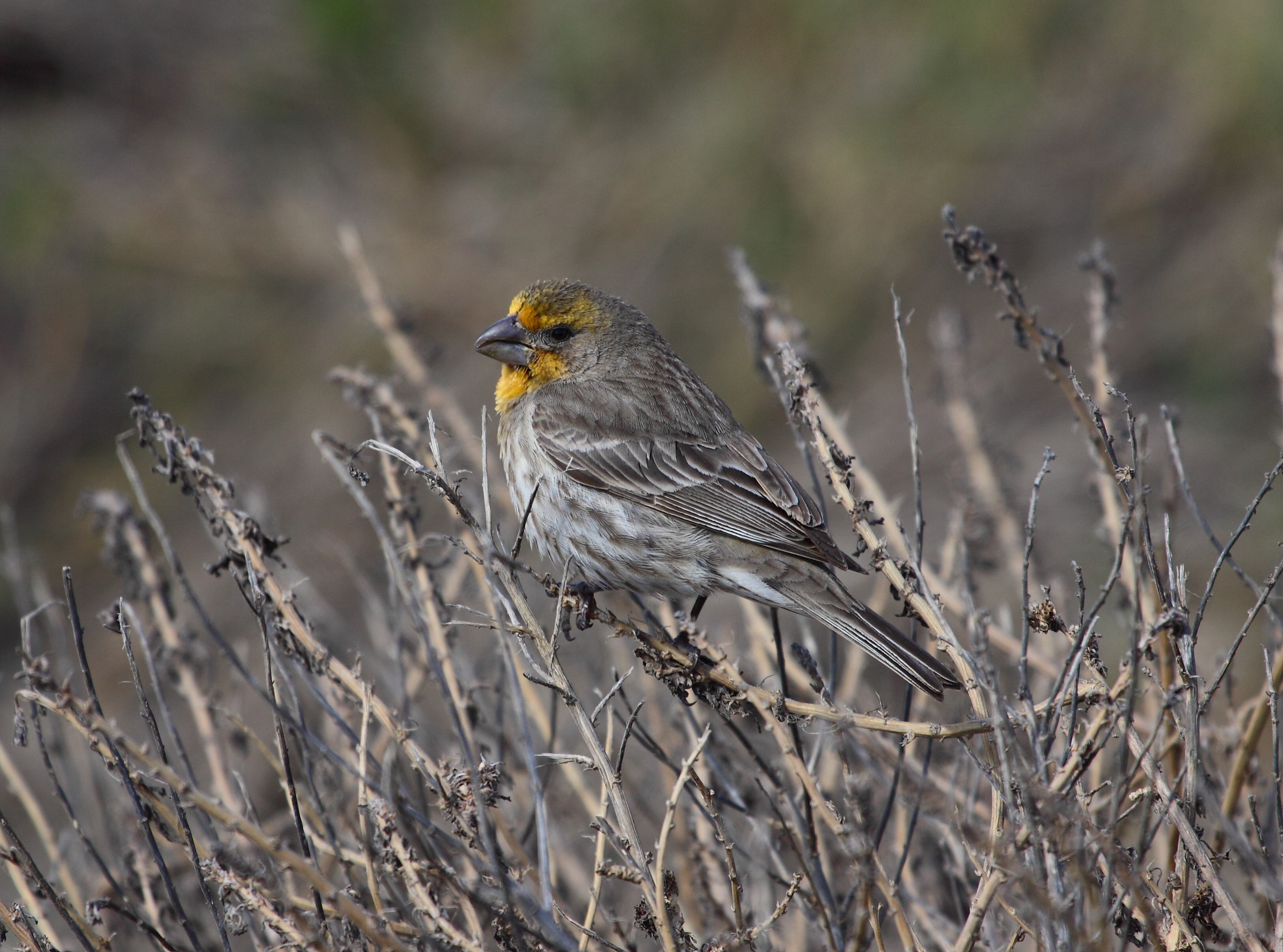 Yellow-variant adult male House Finch (Carpodacus mexicanus) camouflaged in brush.